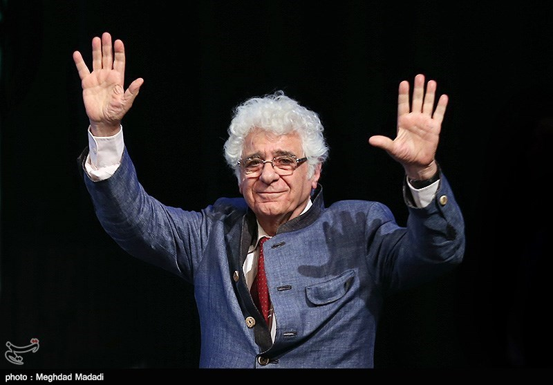 Loris Tjeknavorian at 1st Tehran heart arts award